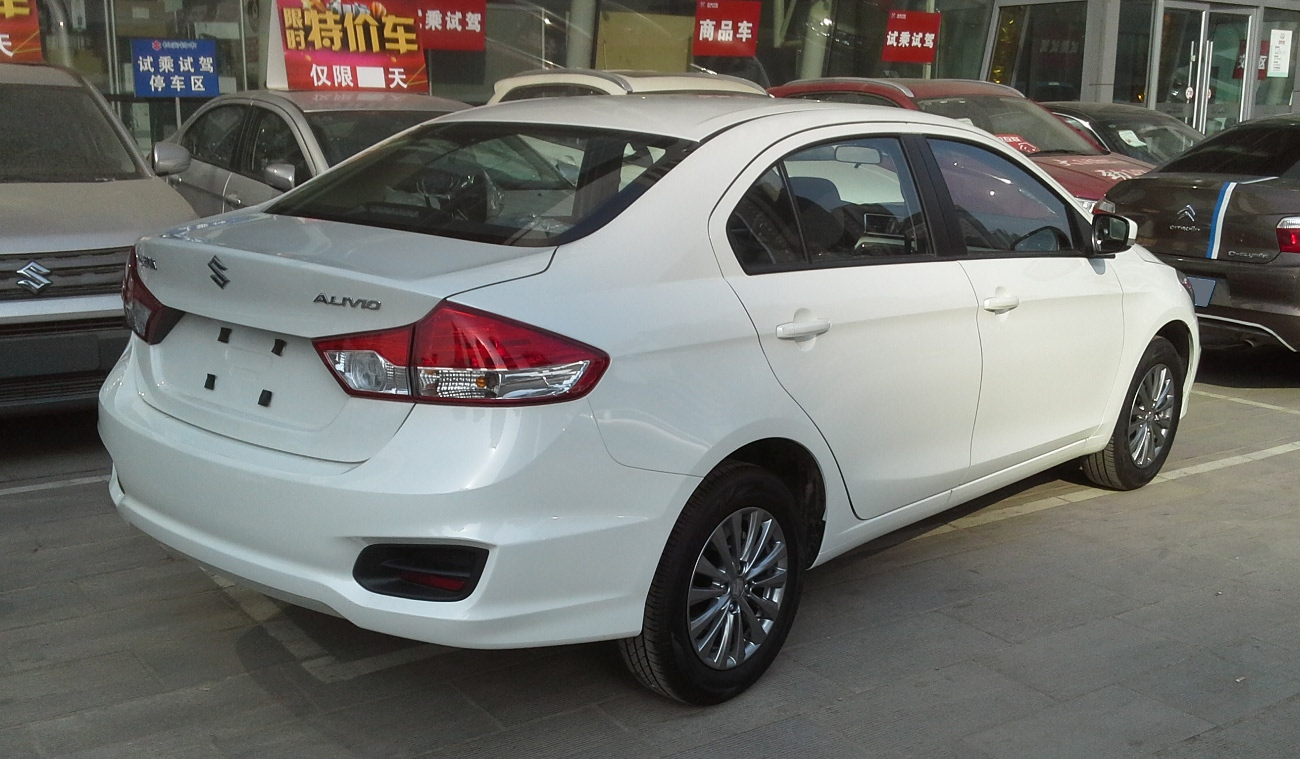 Suzuki Alivio photographed in Shenyang, Liaoning province, China.